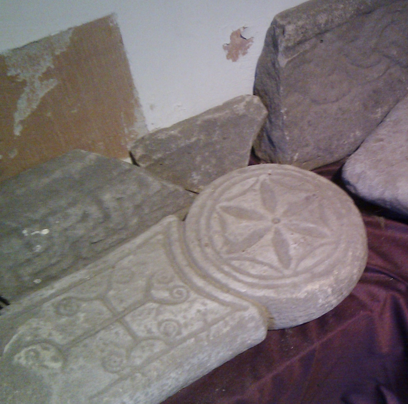 Celtic Crosses excavated on Great Cumbrae, North Ayrshire, Scotland. Located in the Cathedral of the Isles.